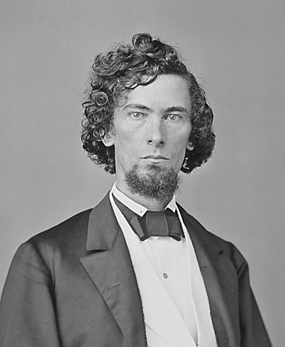 Halbert Eleazer Paine (February 4, 1826 – April 14, 1905). Series: Mathew Brady Photographs of Civil War-Era Personalities and Scenes, (Record Group 111); U.S. National Archives’ Local Identifier: 111-B-1516 [1]